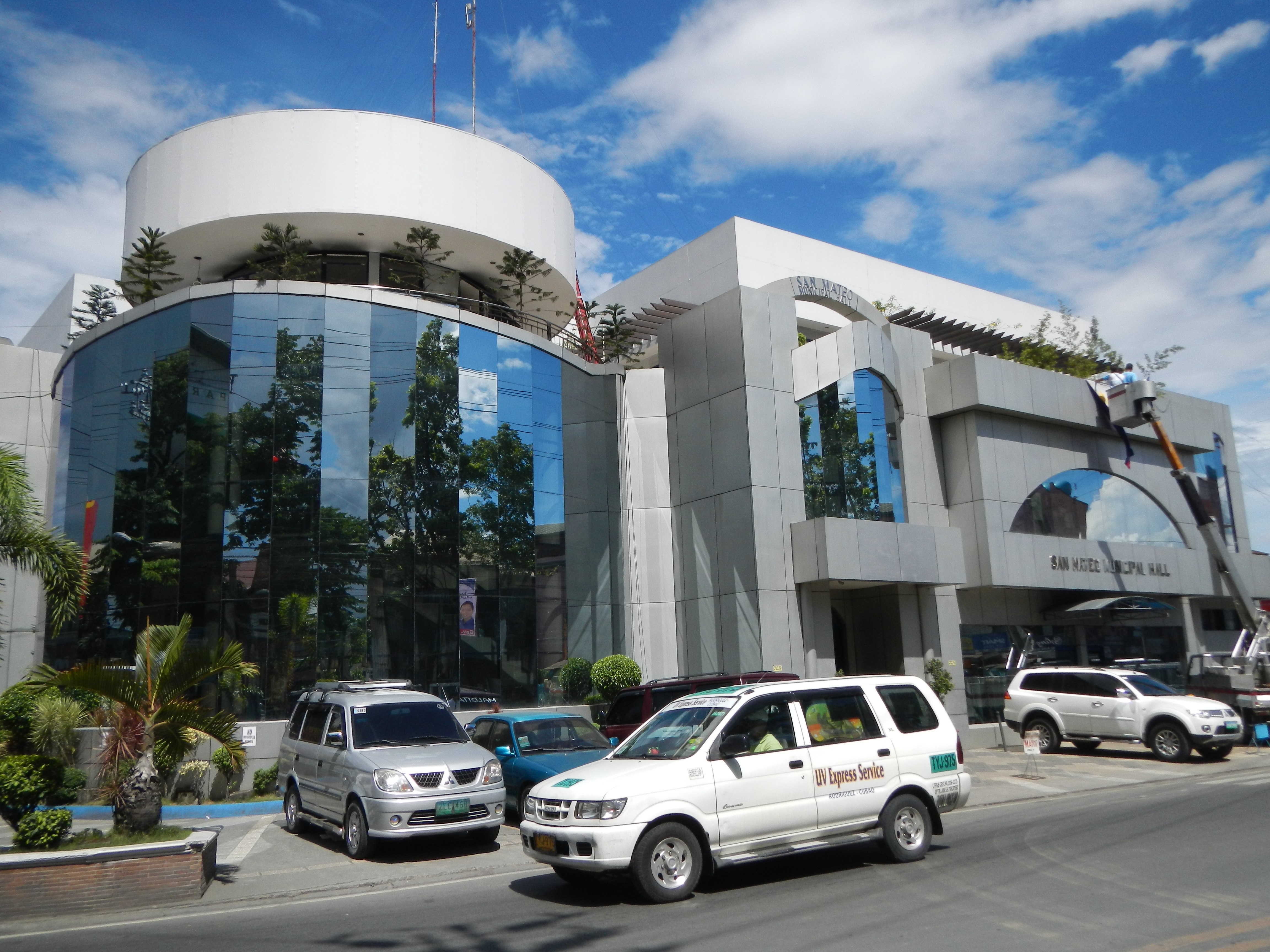 Brgy. Santa Ana San Mateo, Rizal[1] Coordinates: 14°41'28"N 121°6'52"E Gymnasium in front of the San Mateo Municipal Hall[2] Coordinates: 14°41'42"N 121°7'4"E [3] [4] San Mateo, Rizal[5] Geographical location: Rizal, Region 4, Philippines, Asia Geographical coordinates: 14° 41' 42" North, 121° 7' 4" East This building placemark is situated in Rizal, Region 4, Philippines and its geographical coordinates are 14° 41' 42" North, 121° 7' 4" East. ---------[N.B. June 4, Tuesday, 2013 Photography of - From Bulacan at 11 a.m., I took photo of Santolan LRT Station, Marikina City[6], [7] Metro Manila, the National Capital Region[8] - 12:09 p.m. and SM City Marikina, then, the town of San Mateo, Rizal[9] - 2:02 pm and Rodriguez, Rizal[10], at 4:10 pm: 20% cloudy and 80% sunny weather using my Nikon AW 100 waterproof shockproof camera.; I finished Wawa Dam[11] Rodriguez, Rizal photography at 6:03 p.m., and arrived at Bulacan at 9:30 pm after 3+ hours of travel by bus, and started uploading via slow internet at 9:50 pm - I hereby certify that these rarest, raw, original and unedited photos are exclusive for Commons and Wikipedia never uploaded in any Internet or any site, and for the public domain without any condition.]